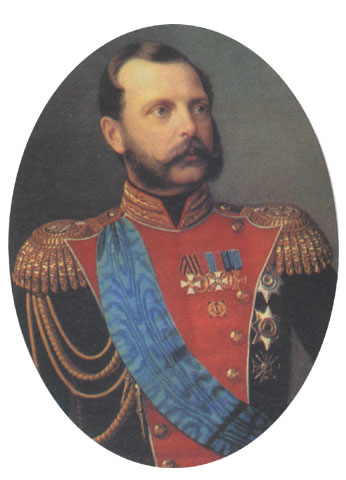 Portrait of Alexander II of Russia (1818-1881)